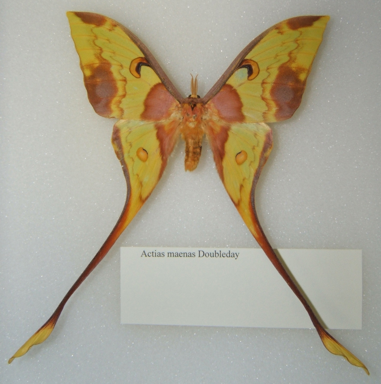 Actias maenas adult male taken by Shawn Hanrahan at the Texas A&M University Insect Collection in College Station, Texas.